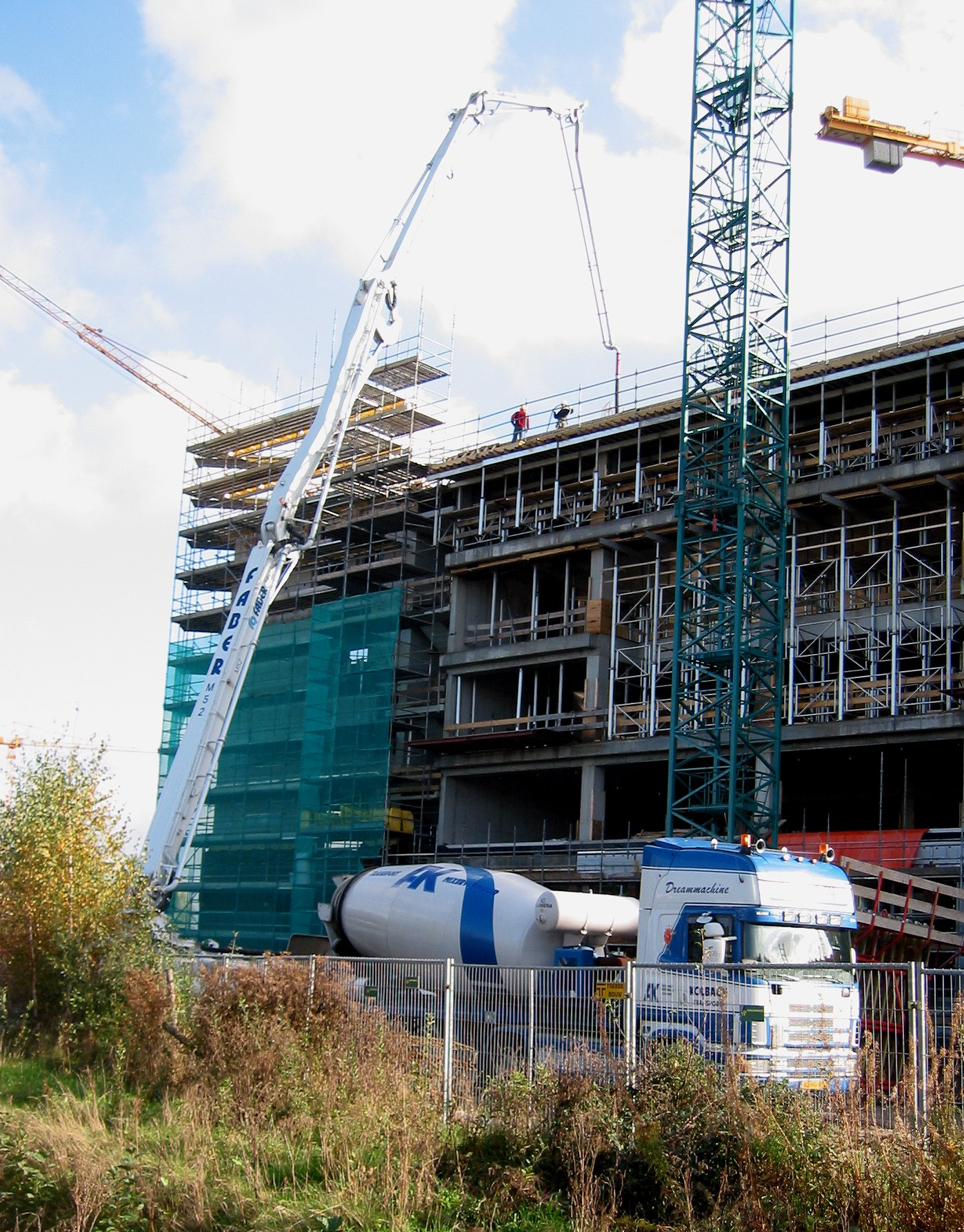 concrete pump